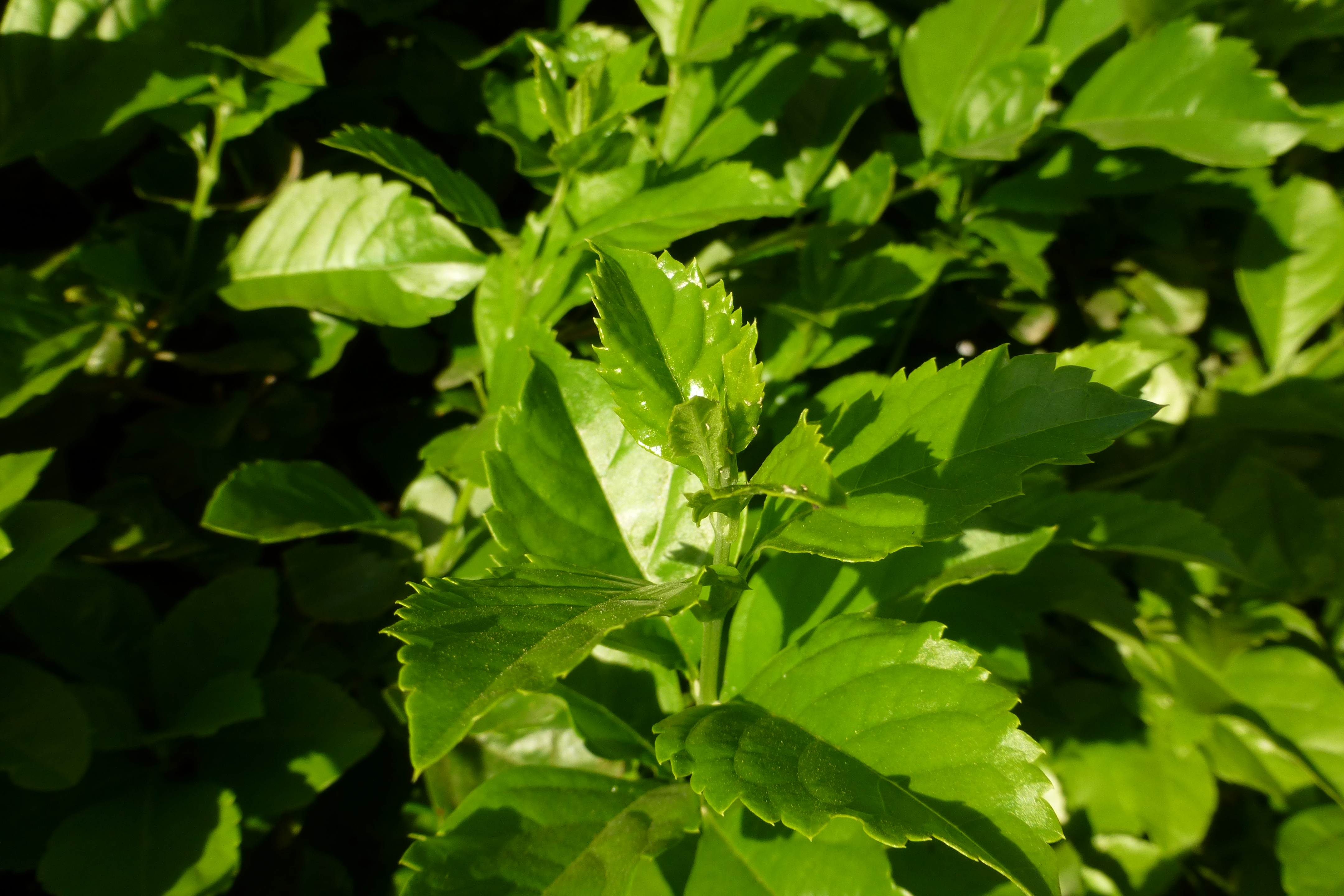 Ramat Gan Leaves